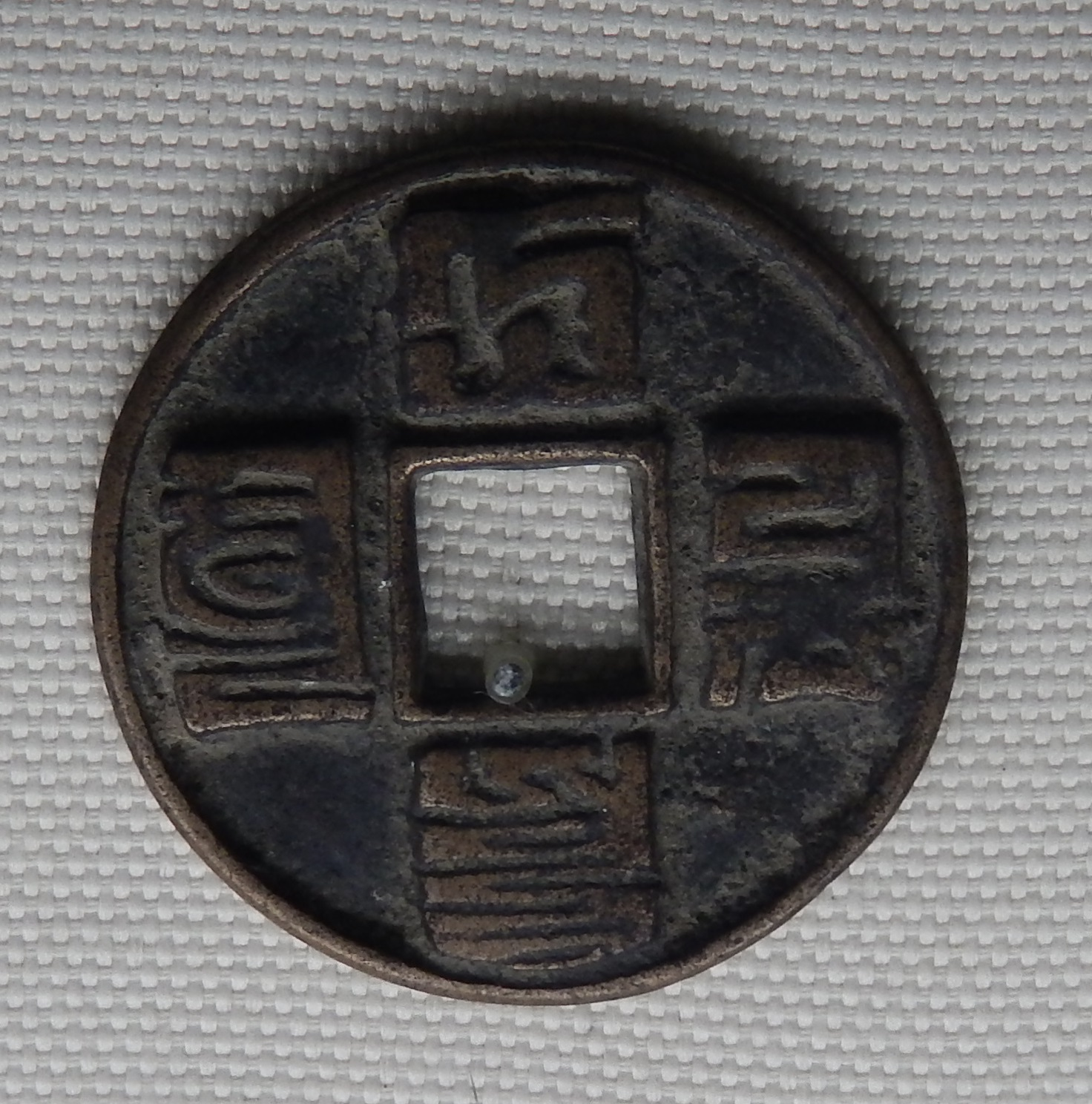 Yuan dynasty bronze coin with inscription Dayuan Tongbao (大元通寶) in the Phags-pa script (ꡈꡗ ꡝꡧꡦꡋ ꡉꡟꡃ ꡎꡓ). Held at the Great Wall of China Museum at Badaling, Beijing.中文（中国大陆）: 元代《大元通宝》八思巴文铜钱。中国长城博物馆藏。